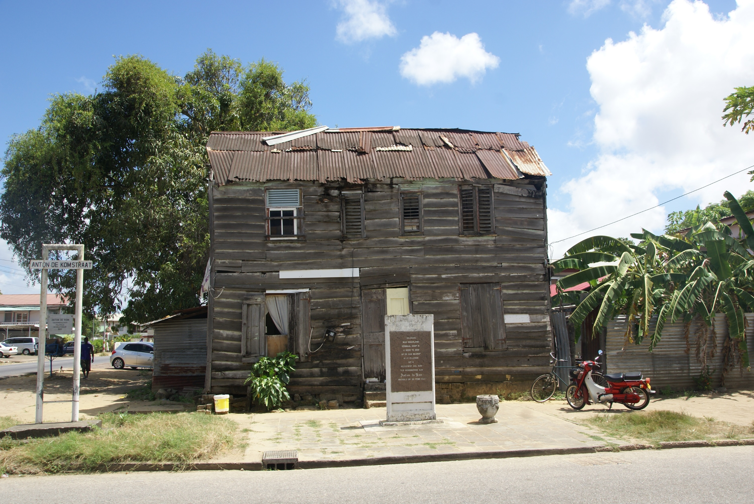 Birthplace of Anton de Kom, Anton de Komstraat (former Pontewerfstraat), Paramaribo, Surinam. Monument dates from 1985.